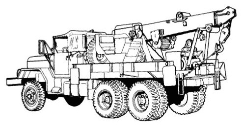 Left back view of M543A2